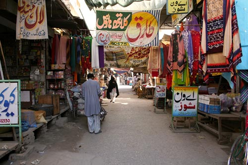 Sadar Bazar Layyah.